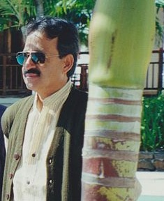 Raashid Alvi, in Malappuram, Kerela Other information none